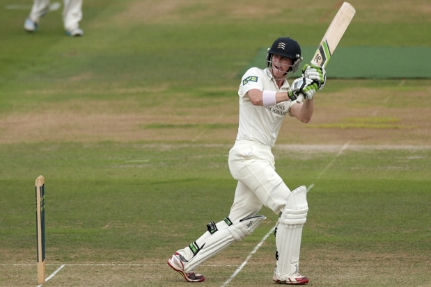 Nick Gubbins in action for Middlesex CCC